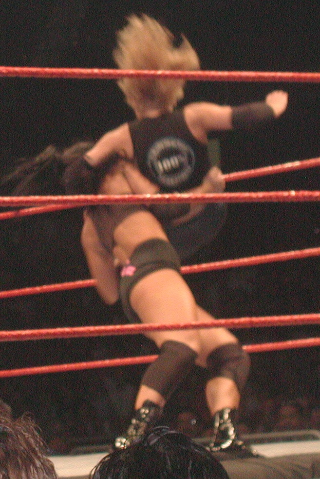 Trish Stratus with the Stratusfaction on Victoria. Allstate Arena September 1 2002.